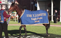 Author: Anthony Cummings Source link